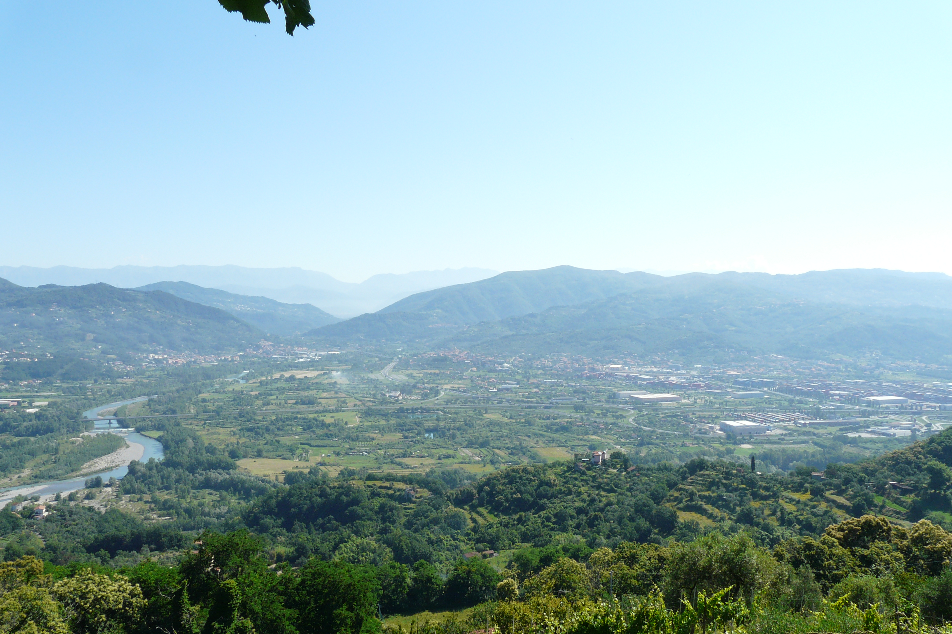 Piana di Ceparana and the Magra River upstream with villages Albiano Magra in the left of the photo, Santo Stefano di Magra and other villages Caprigliola (Aulla)? from far between the hills in the right, A15 / A 12 with some of the bridges in the valley.